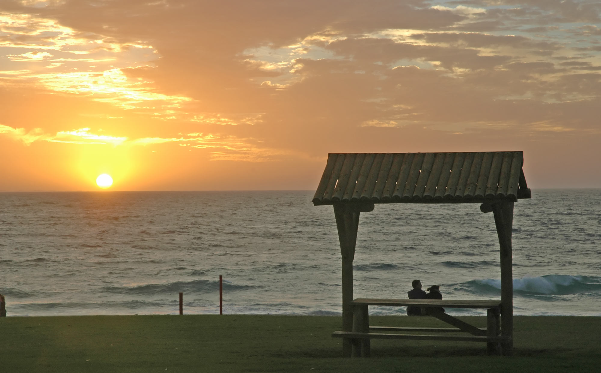 The sun setting on the Indian Ocean near Perth, Western Australia, Australia.City Beach Sunset